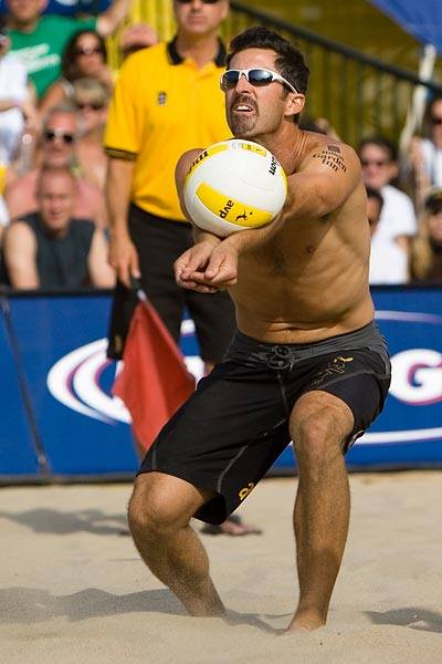 Todd Rogers passing a ball during an AVP tournament in 2007.